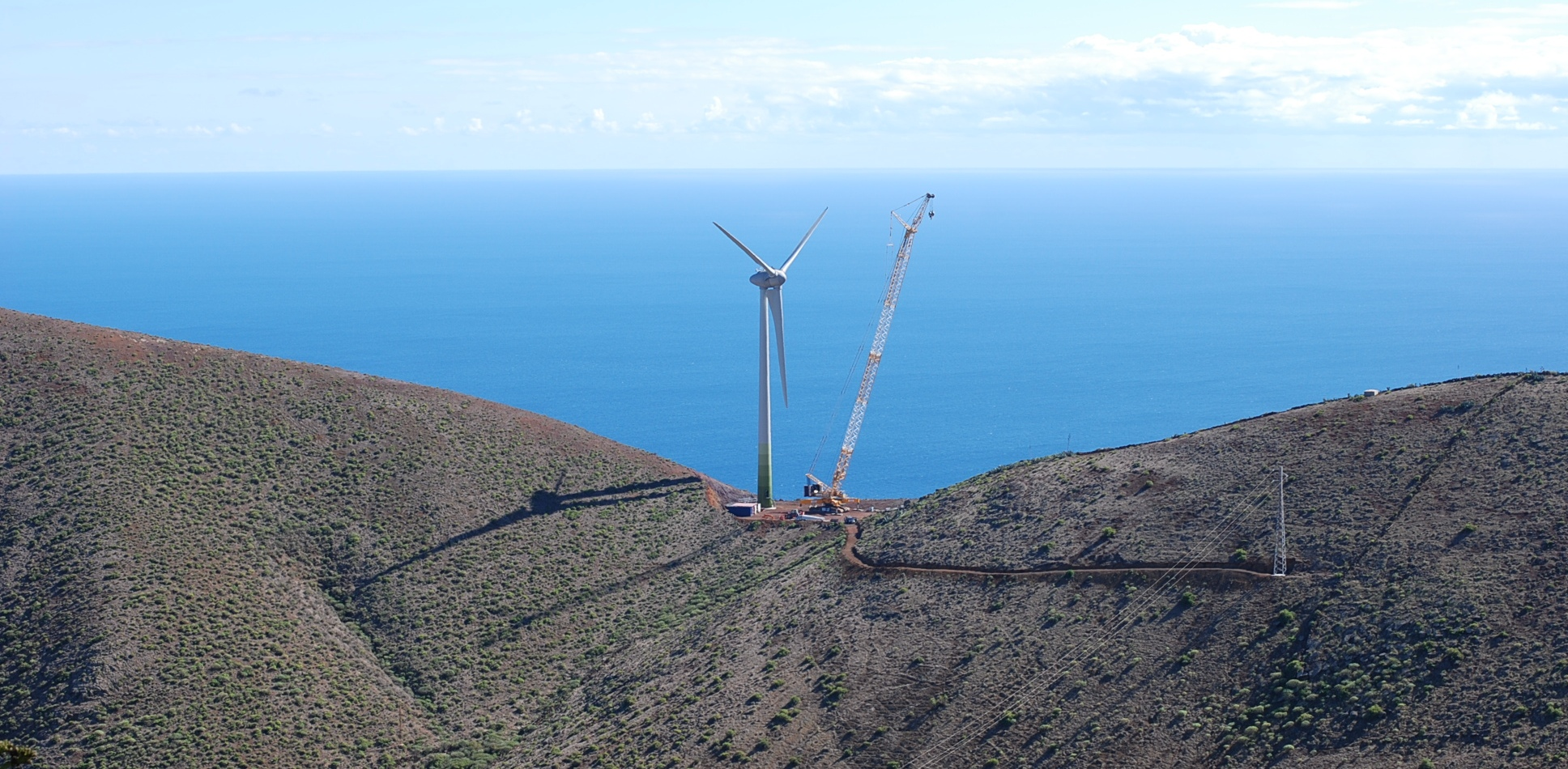 First of five wind turbines of 2.5 MW on El Hierro island five minutes after assembly.